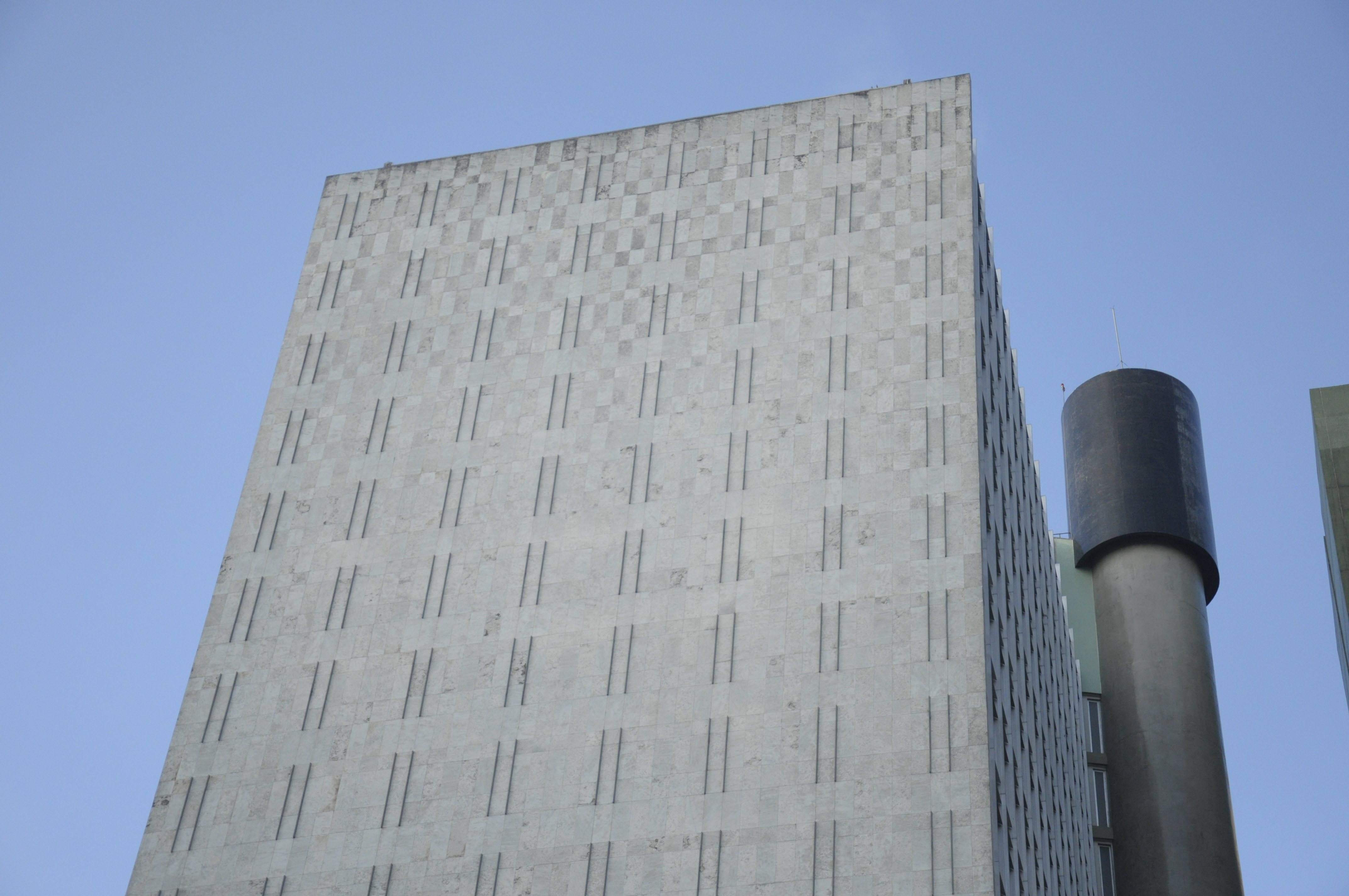 Parte de cima do Edifício Banco Sul Americano - São Paulo (SP), Brasil